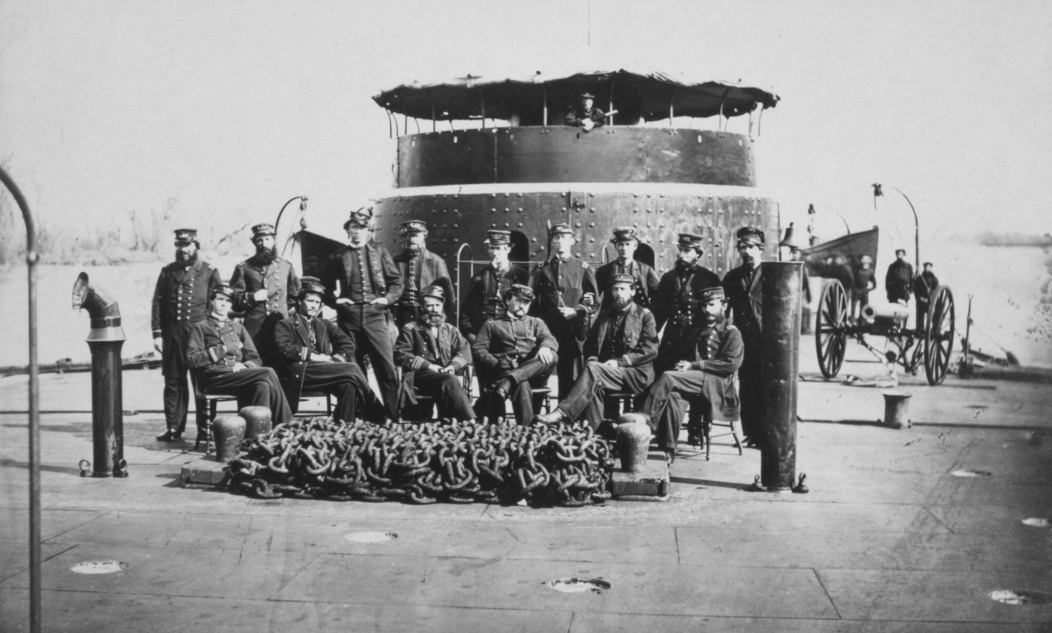 "Fifteen officers on deck of the original 'Monitor'". Photograph.